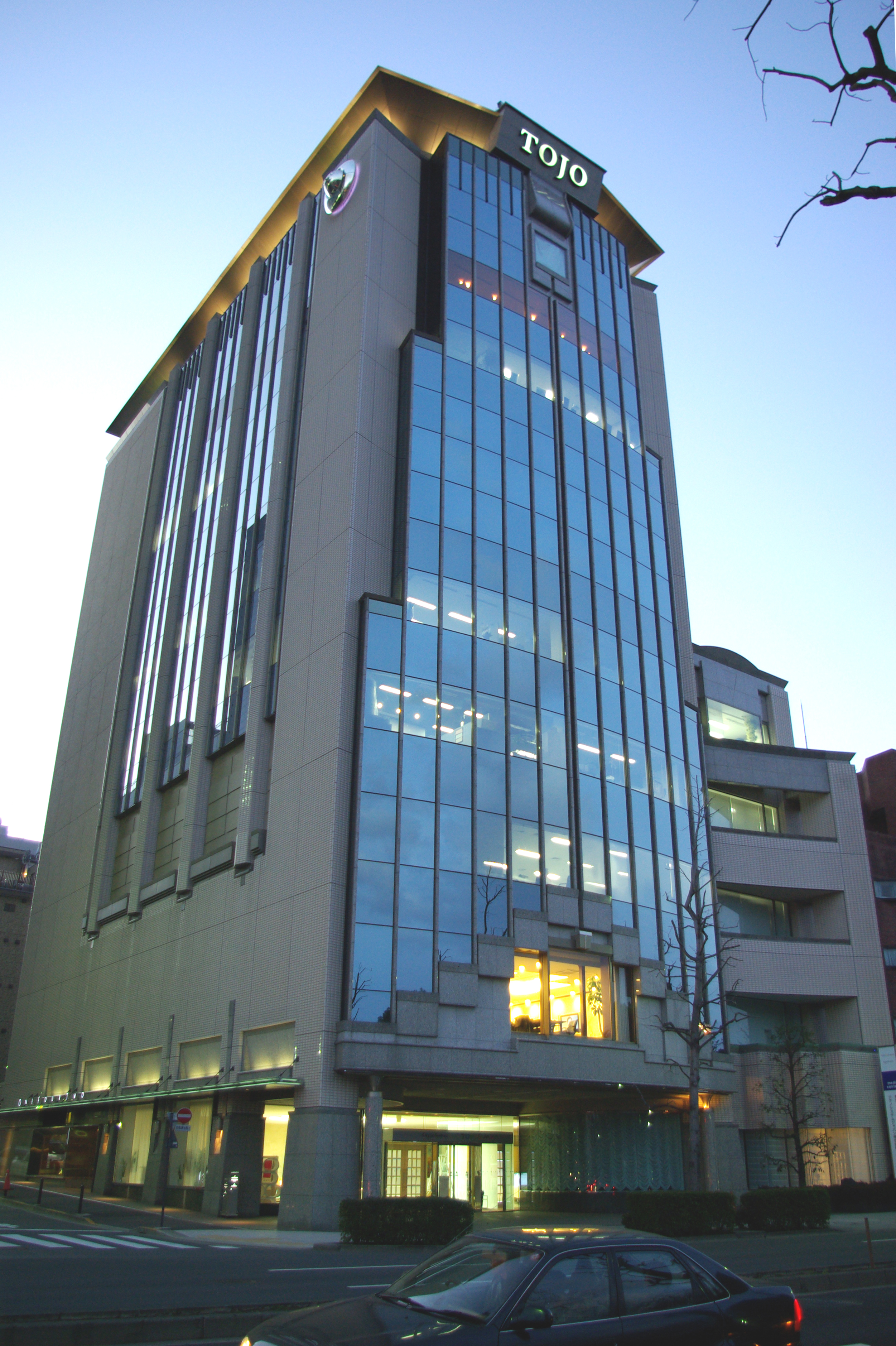 Tokyo Metropolitan Television (Tokyo MX) headquarters in Kojimachi, Chiyoda, Tokyo